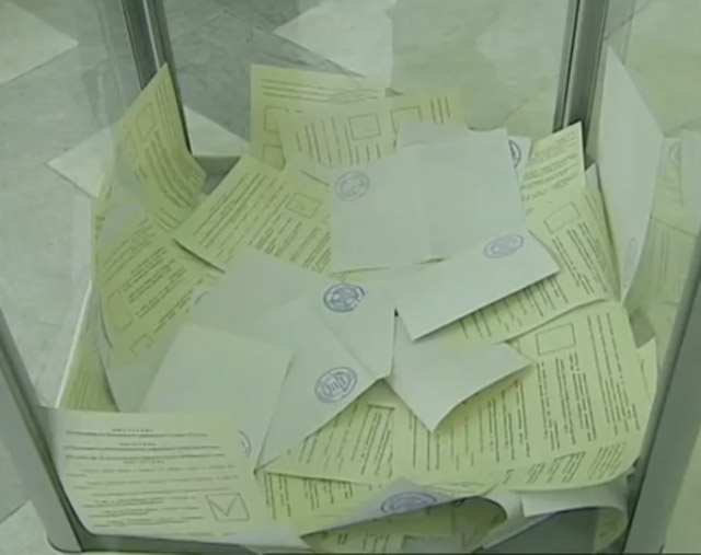 Ballots of the illegitimate Crimean status referendum, 16 March 2014